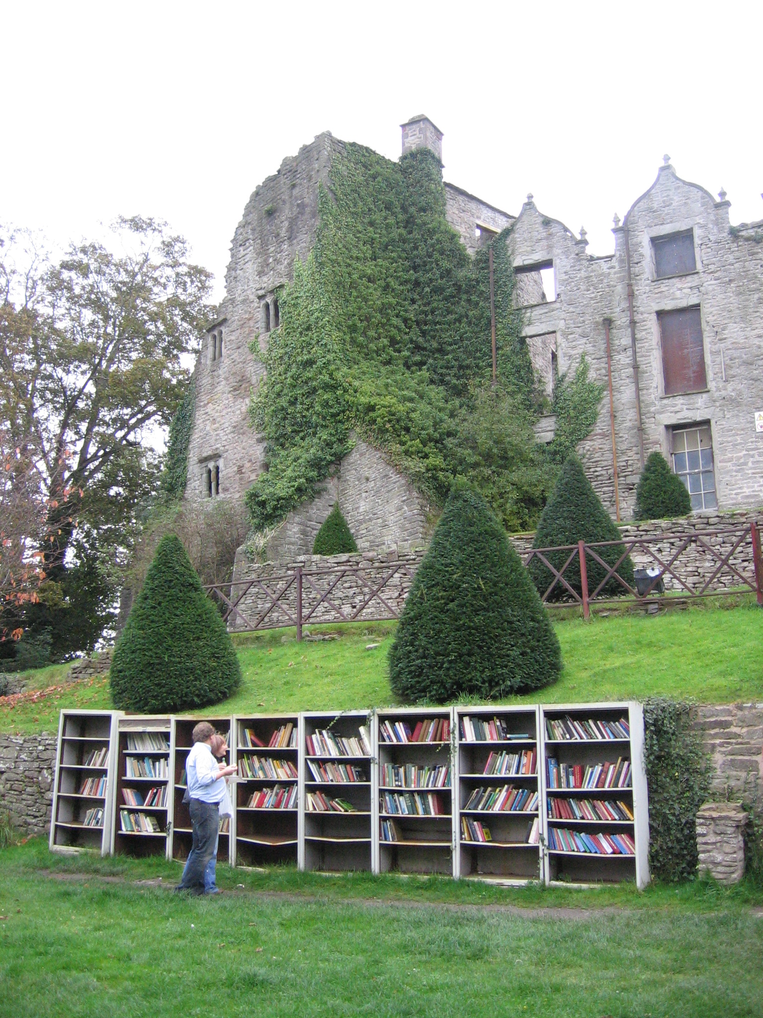 The Castle in Hay-on-Wye